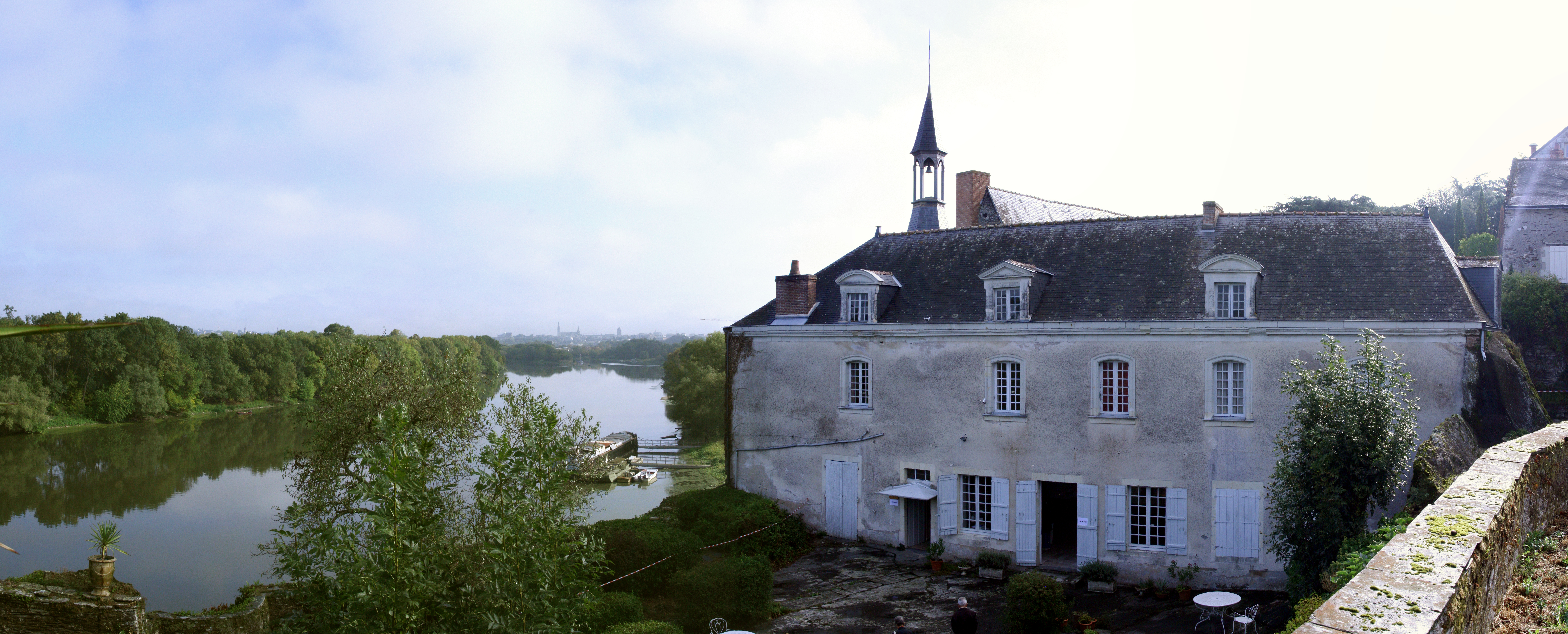 The former convent of "La Baumette" and the Maine river. Angers, Maine-et-Loire, Pays de la Loire, France.